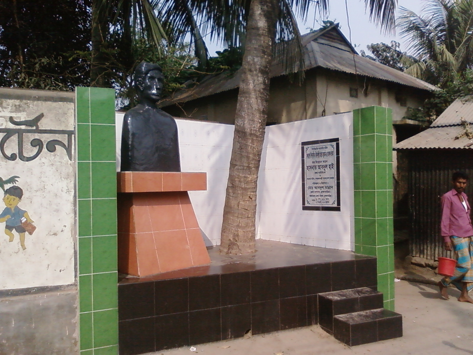 Full statue of Advaita Mallabarmana front his own house.